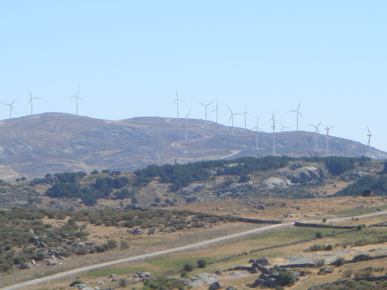 Eolic Park at Cerro Gorría, (Sierra de Ávila), Spain, Ávila province.